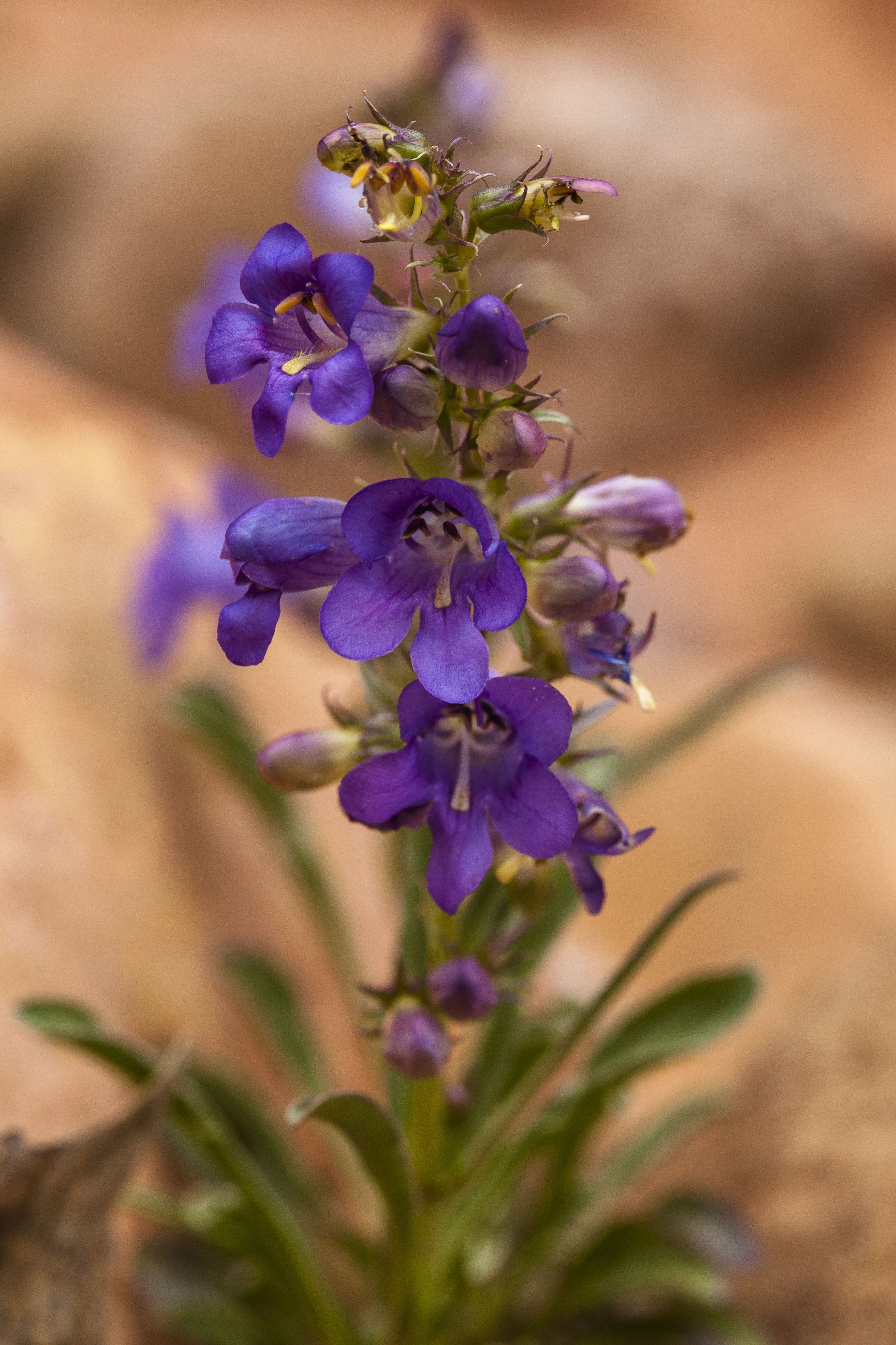 (NPS photo by Jacob W. Frank)